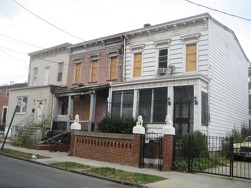 I took this photo and release it under cc-by-sa.